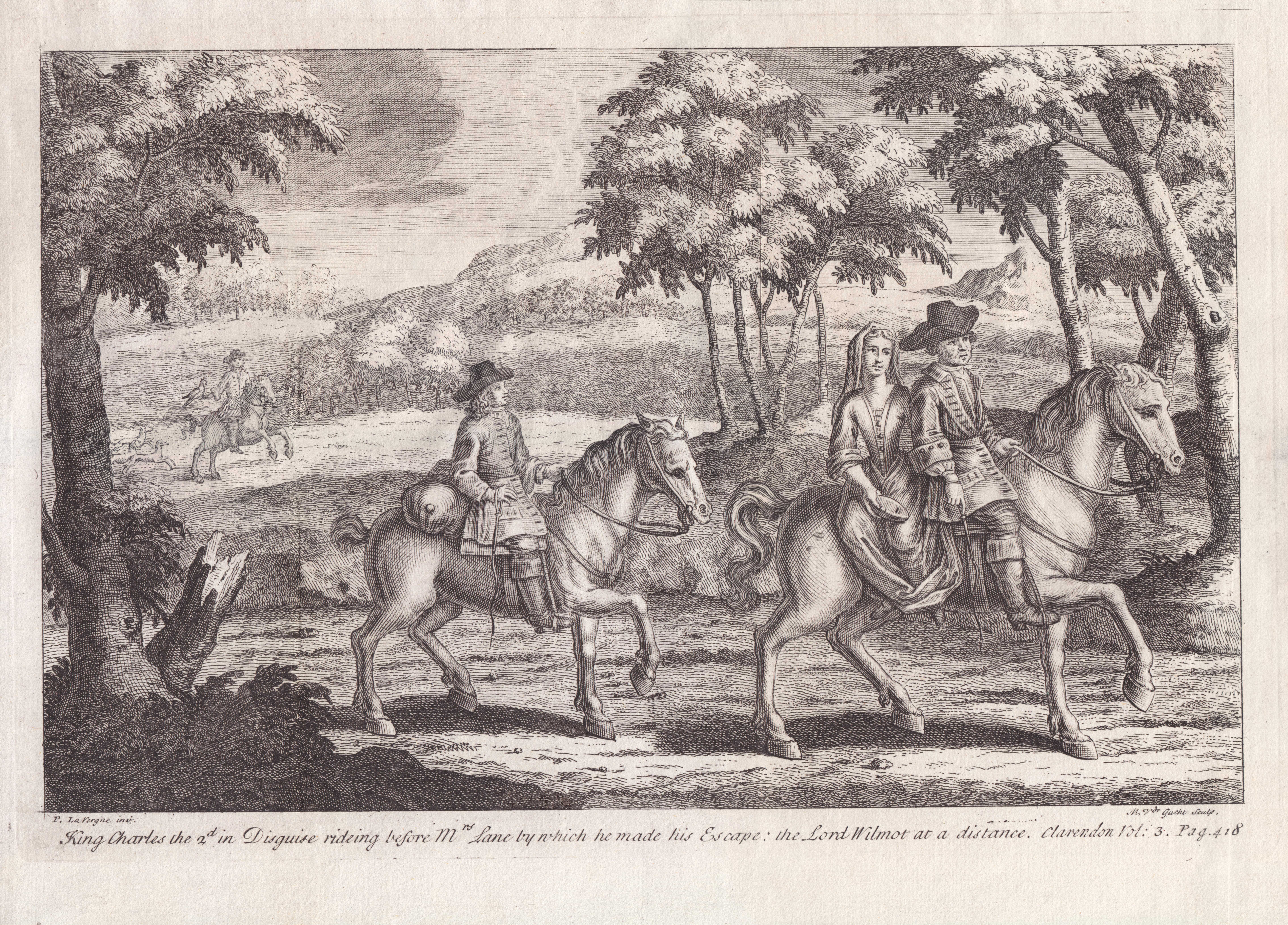 King Charles the 2d in Disguise rideing before Mrs Lane by which he made his Escape; the Lord Wilmor at a distance. Clarendon Vol: 3. Pag. 418. - P. La Vergne inv. M. Vdr Gucht Sculp.